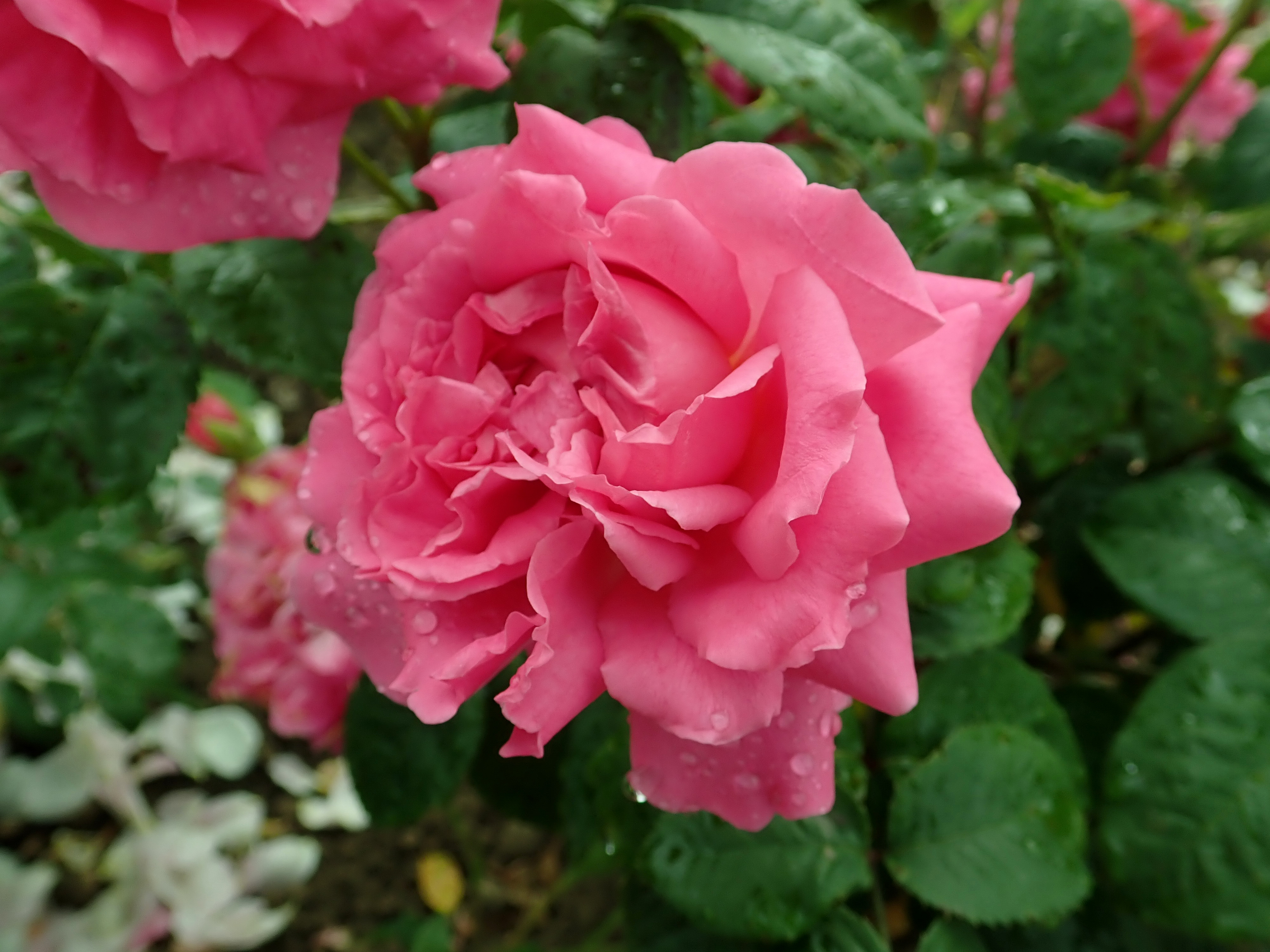 Rosa ‘Hilda Murrell’ (David Austin, 1984), Europa-Rosarium Sangerhausen.